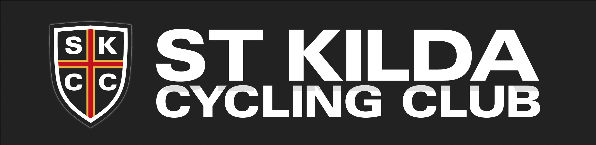 St Kilda Cycling Club word logo